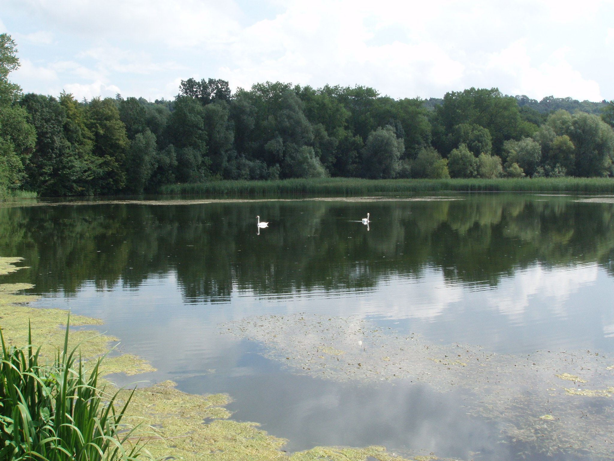 Štěnecký pond. Natural monument Kusá hora, Chrudim District, Czech Republic